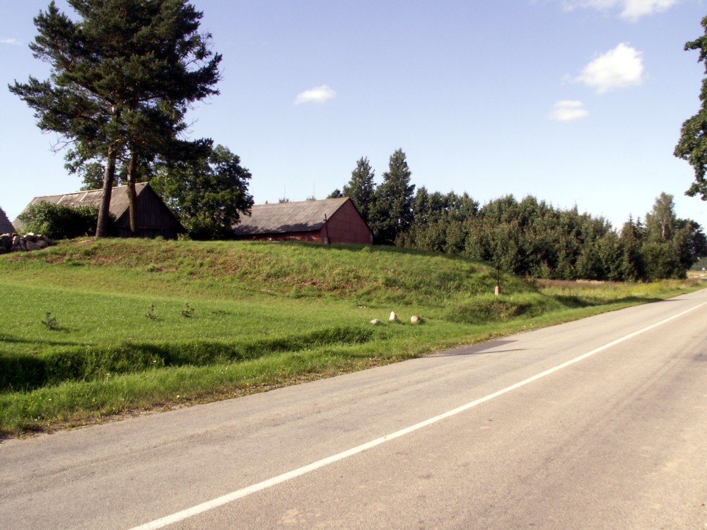 Giedriai, Šiauliai district, Lithuania